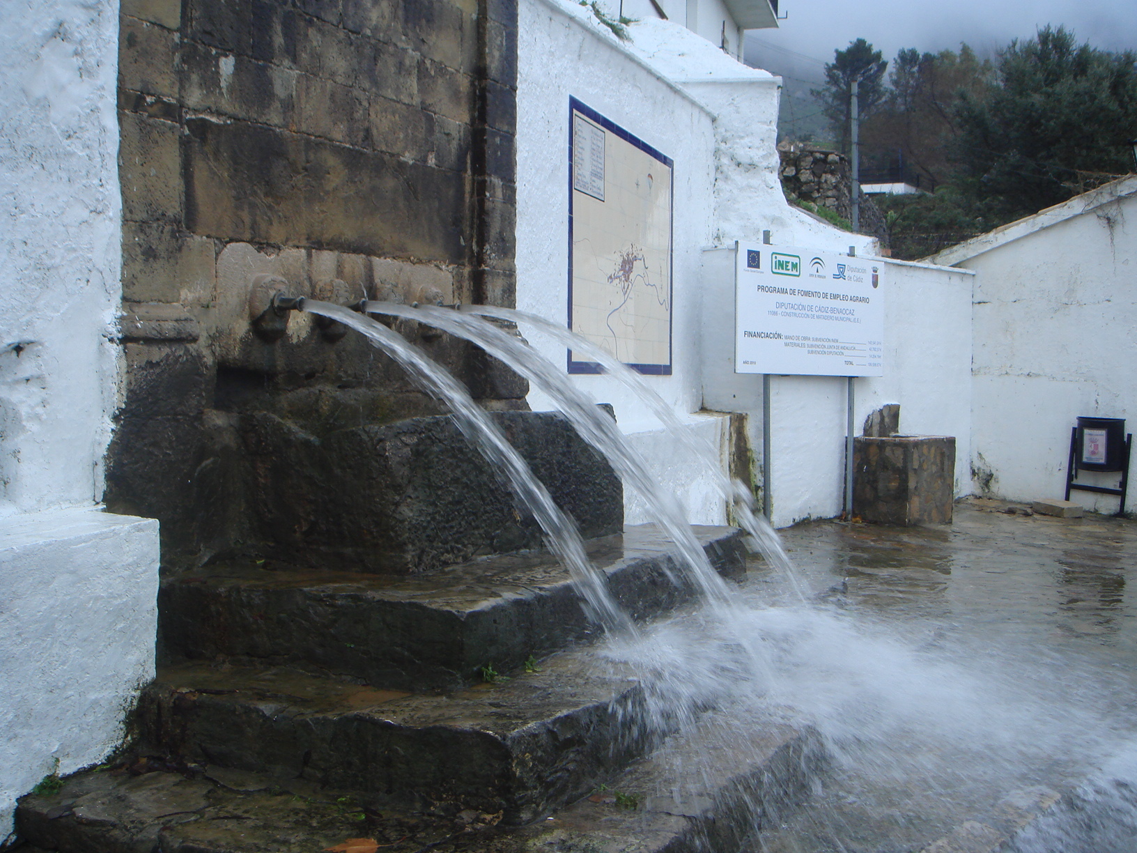 Fountain at Benaocaz, Spain, Andalusia, (Cádiz).